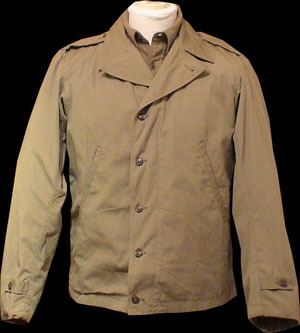 A photo of an M-1941 Field Jacket.